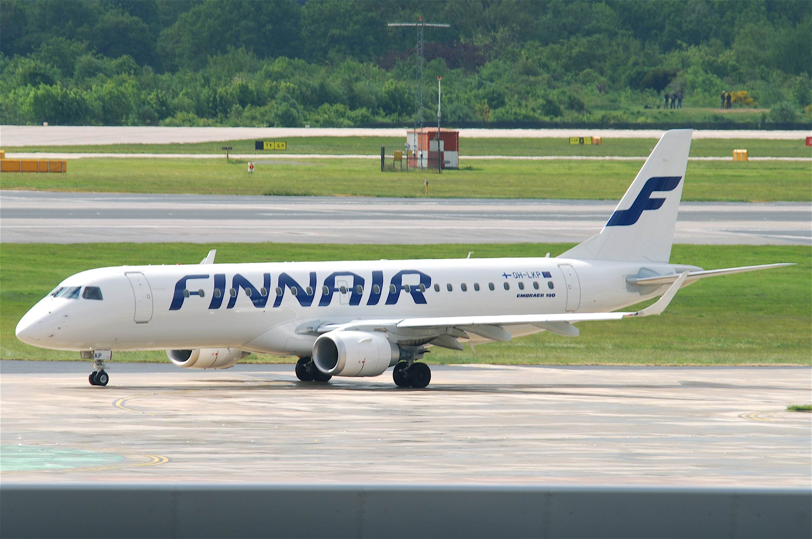 A Finnair Embraer ERJ-190-100LR aircraft (OH-LKP) at Manchester Airport in May 2011.